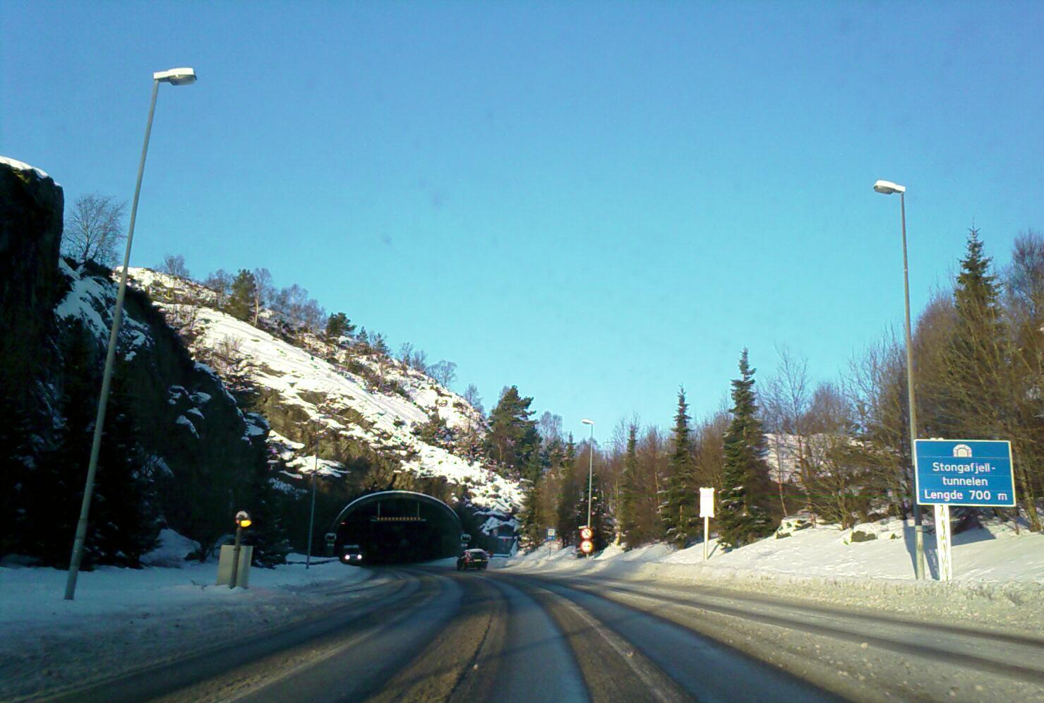 View of Stongafjelltunnelen from south.